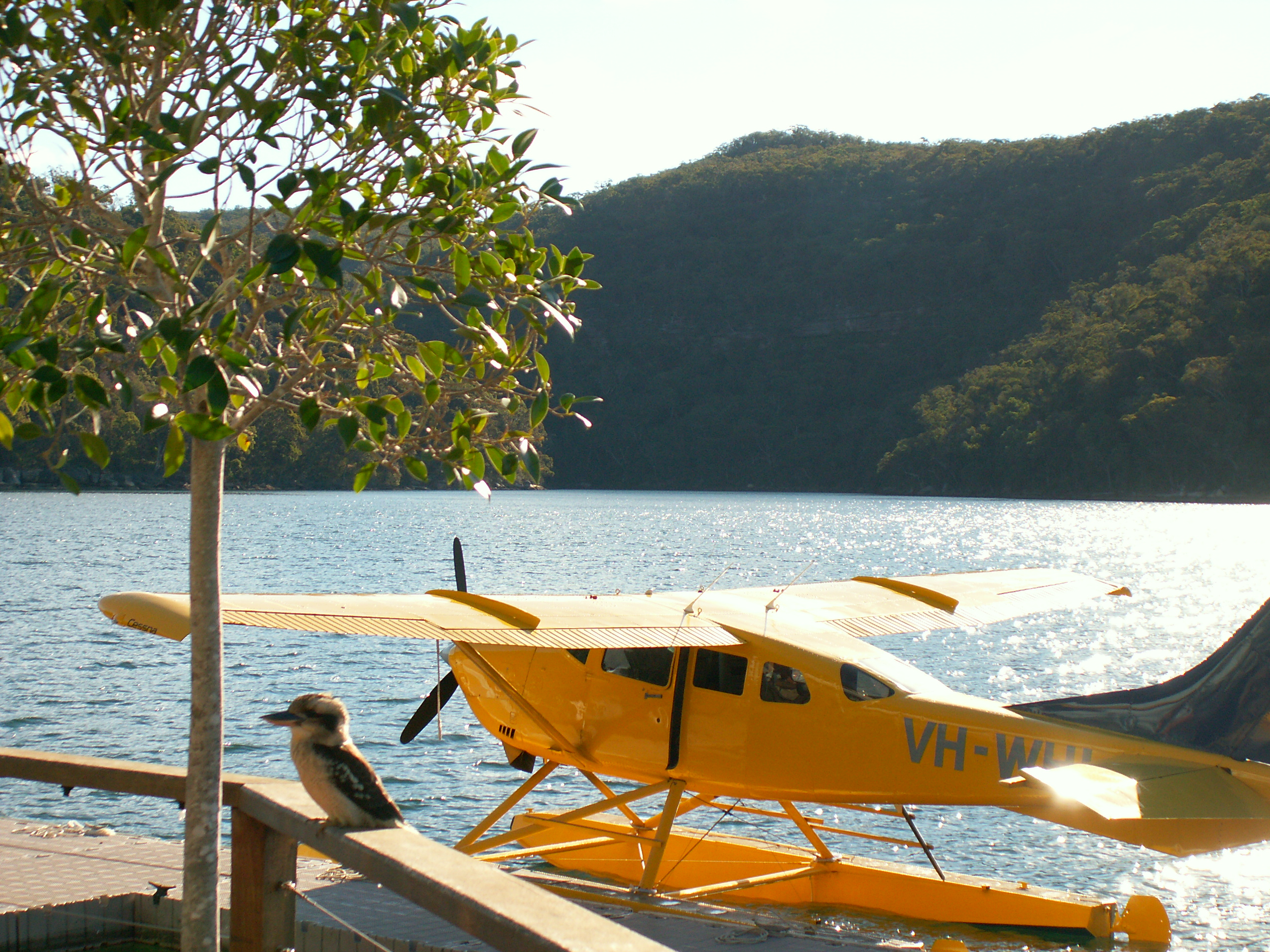 View from Cottage Point Inn as a waterplane lands